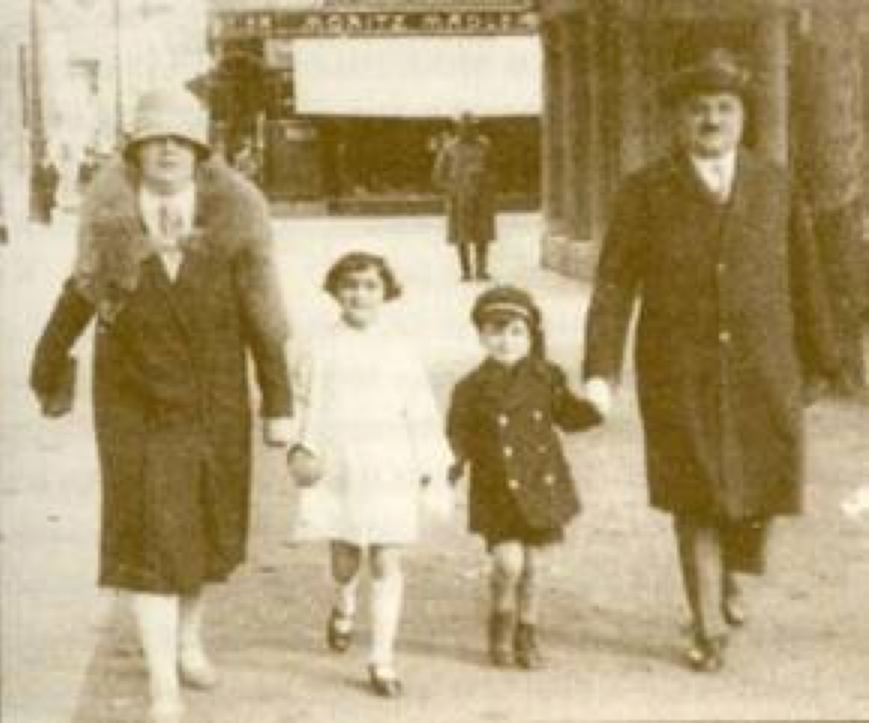 Picture of about 1929/30 – from left to right: Lily Grosser (1894–1968), her daughter Margarethe Grosser (1922–1941), her son Alfred Grosser (* 1925), and her husband Prof. Dr. med. Paul Grosser (1880–1934) during a promenade (probably on a Sunday) through Neue Mainzer Strasse in Frankfurt am Main, Hesse, Germany. In the background the Frankfurt branch of Moritz Mädler, a Saxonian producer of luggage, at Kaiserstrasse 29. On the picture the family is walking by the address Neue Mainzer Strasse 29.